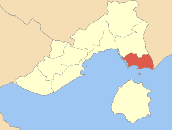 Locator map of Keramoti municipality (Δήμος Κεραμωτής) in Kavala prefecture (Νομός Καβάλας) in Greece.